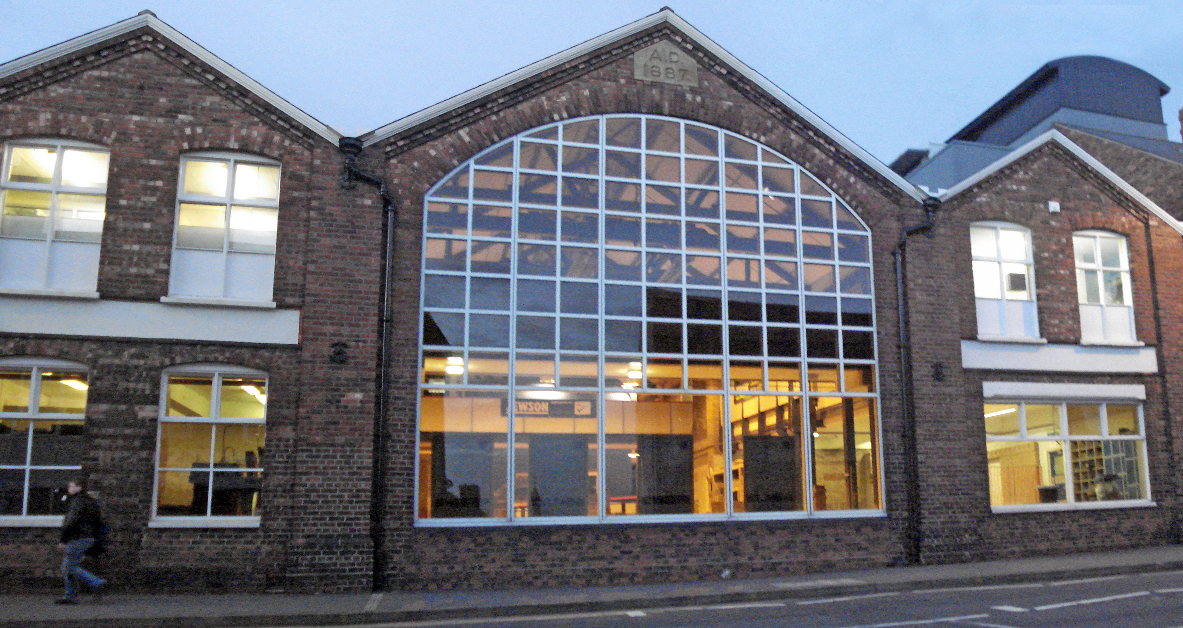 10 Monks Road Rainforth's Implement Works Monks Road is now part of Lincoln College. The standing building is dated 1887. Rainforth's went into voluntary liquidation in 1933, the business being taken over by A G Parrot, followed by S W Thorne and J Carrot who made bus and coach bodies for Lincolnshire Road Car until 1935. By 1937 it was a motor garage run by A R Hill Ltd and later by J R J Mansbridge.